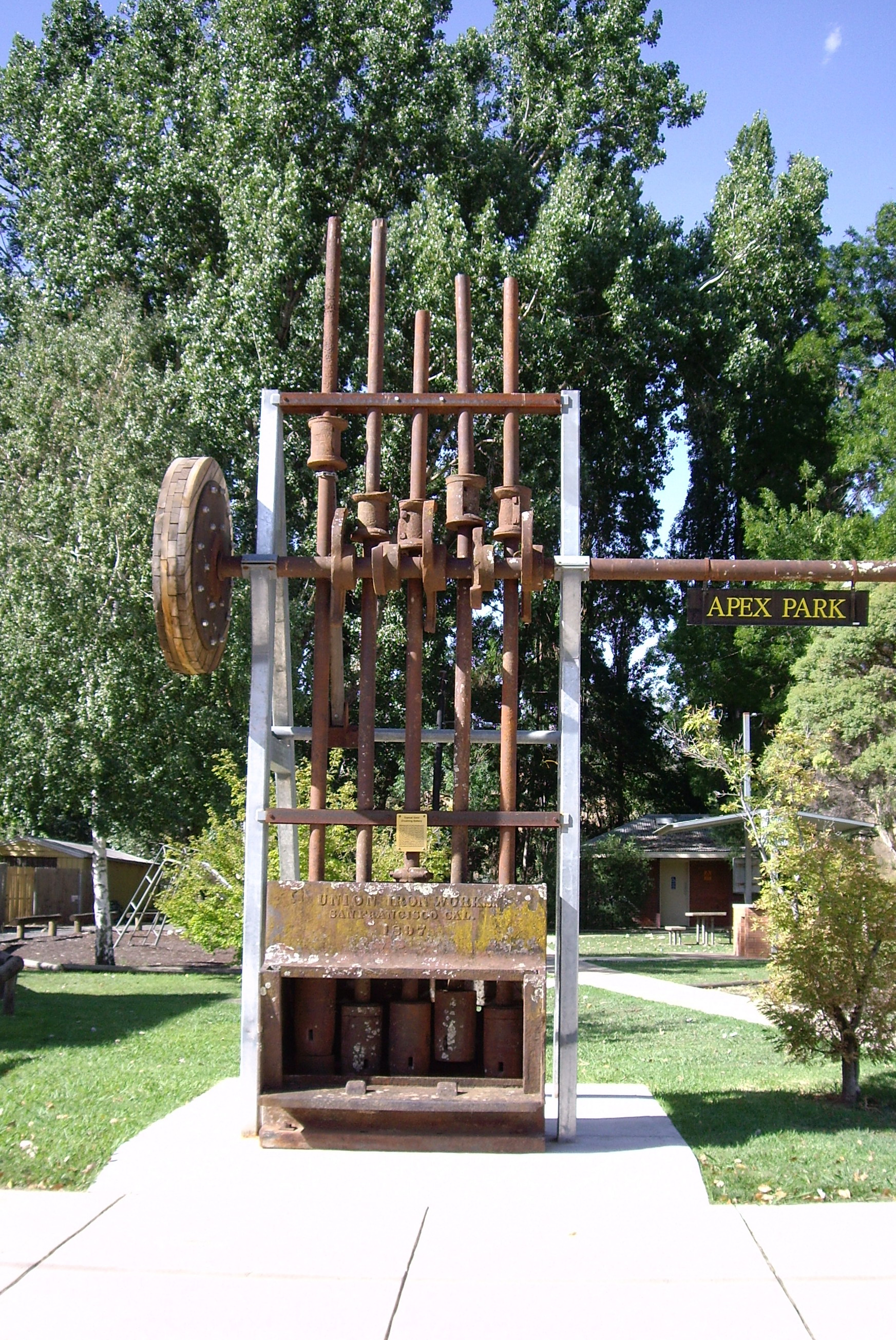 Adelong - Antique gold crusher in the main street